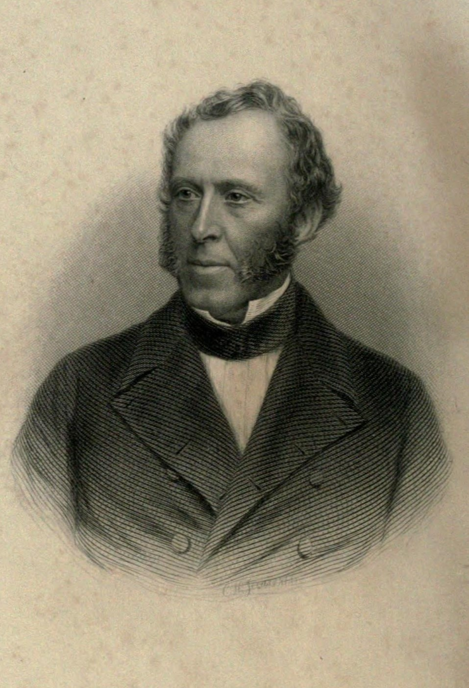 Image of the firefighter James Braidwood (1800–1861)